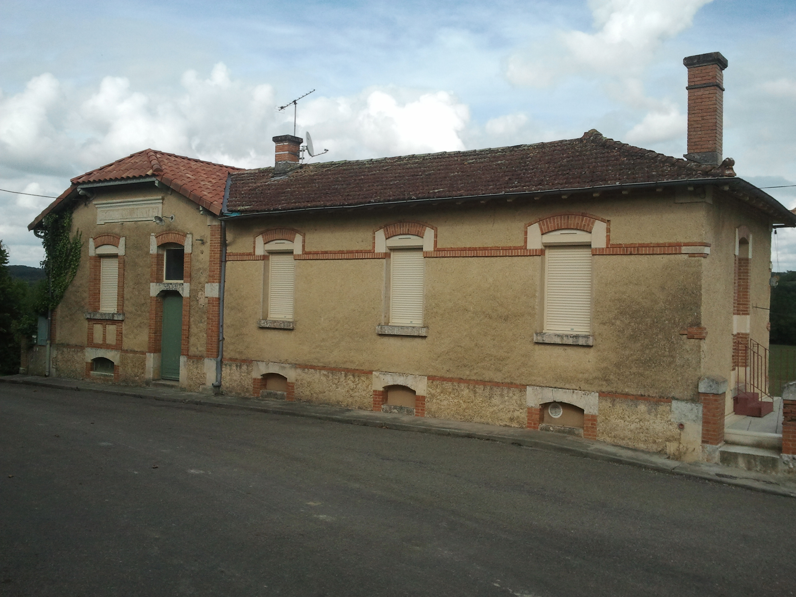 The school in Orbessan